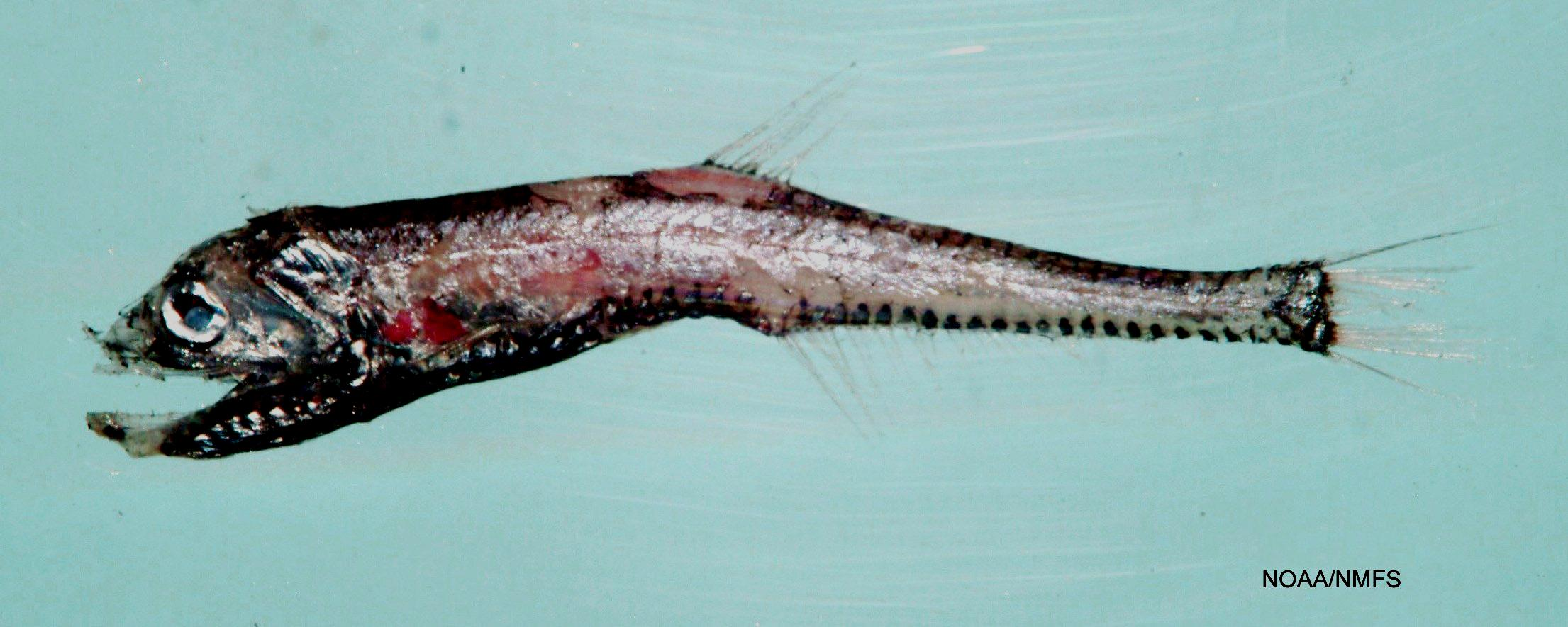 Rendezvous fish ( Polymetme corythaeola ). Gulf of Mexico.